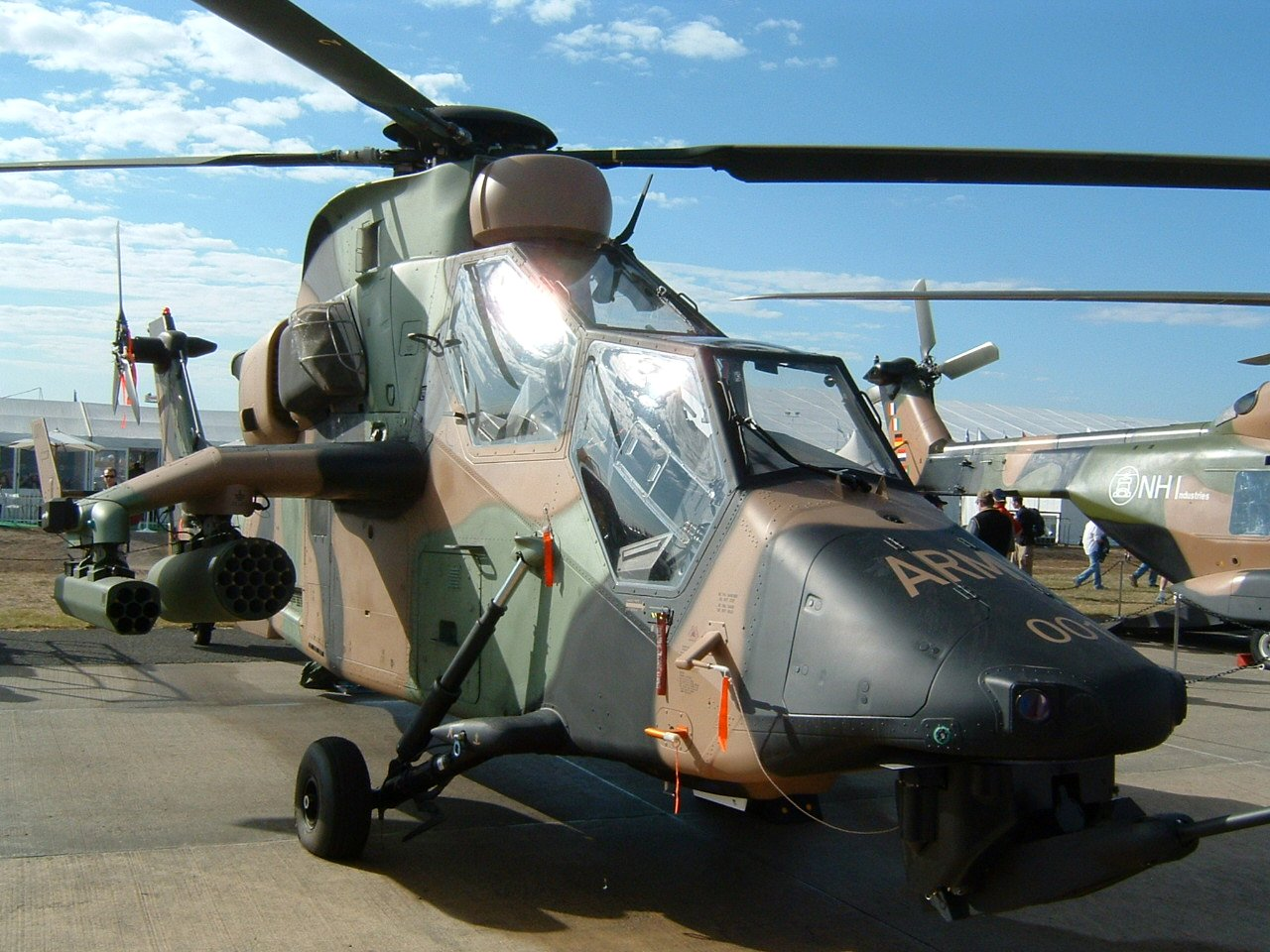 Australian Army Eurocopter Tiger ARH (Armed Reconnaissance Helicopter) Photographed at Avalon Airport, Australia, 2005.